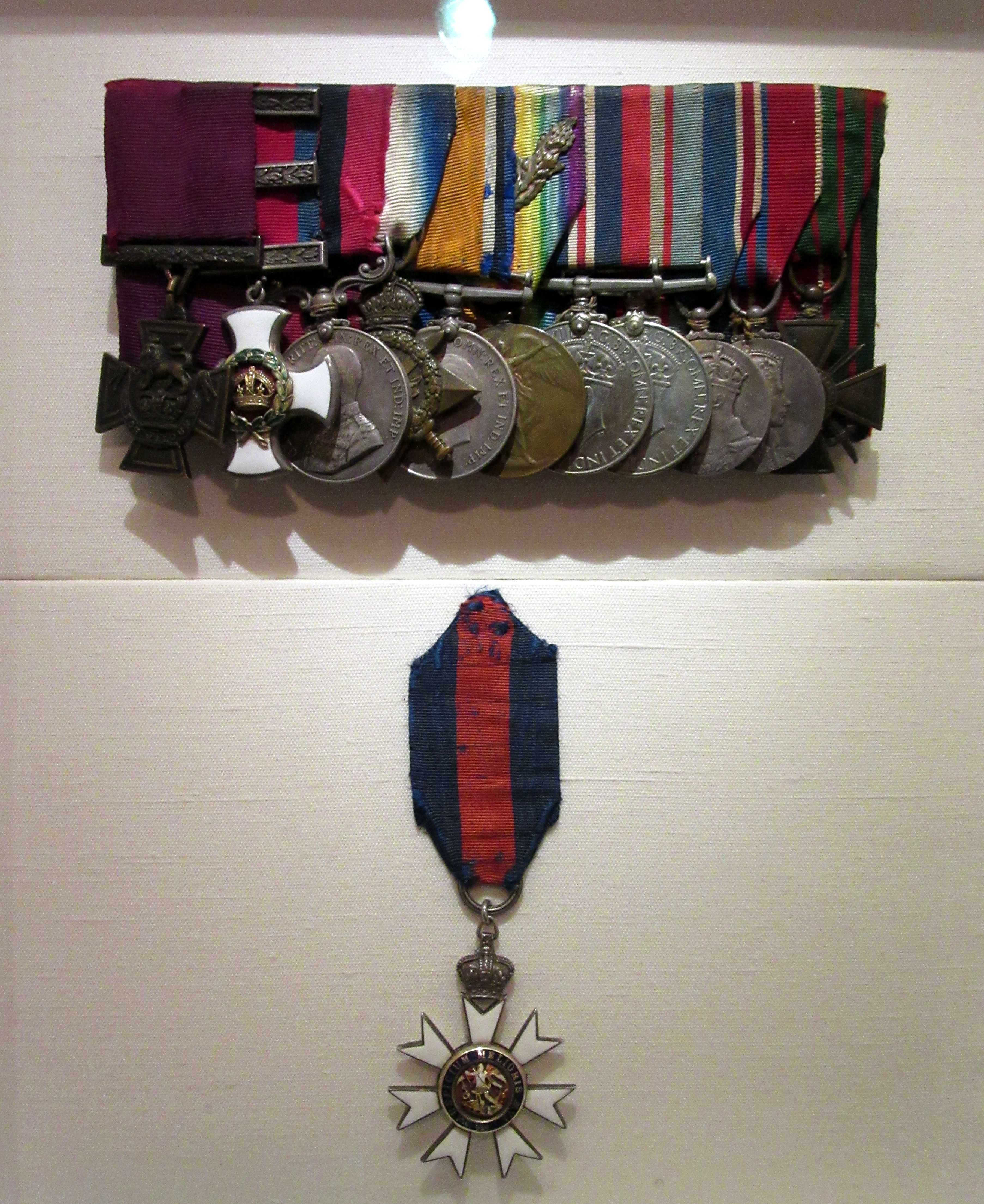 The decorations and medals awarded to Harry Murray on display at the Australian War Memorial, Canberra.